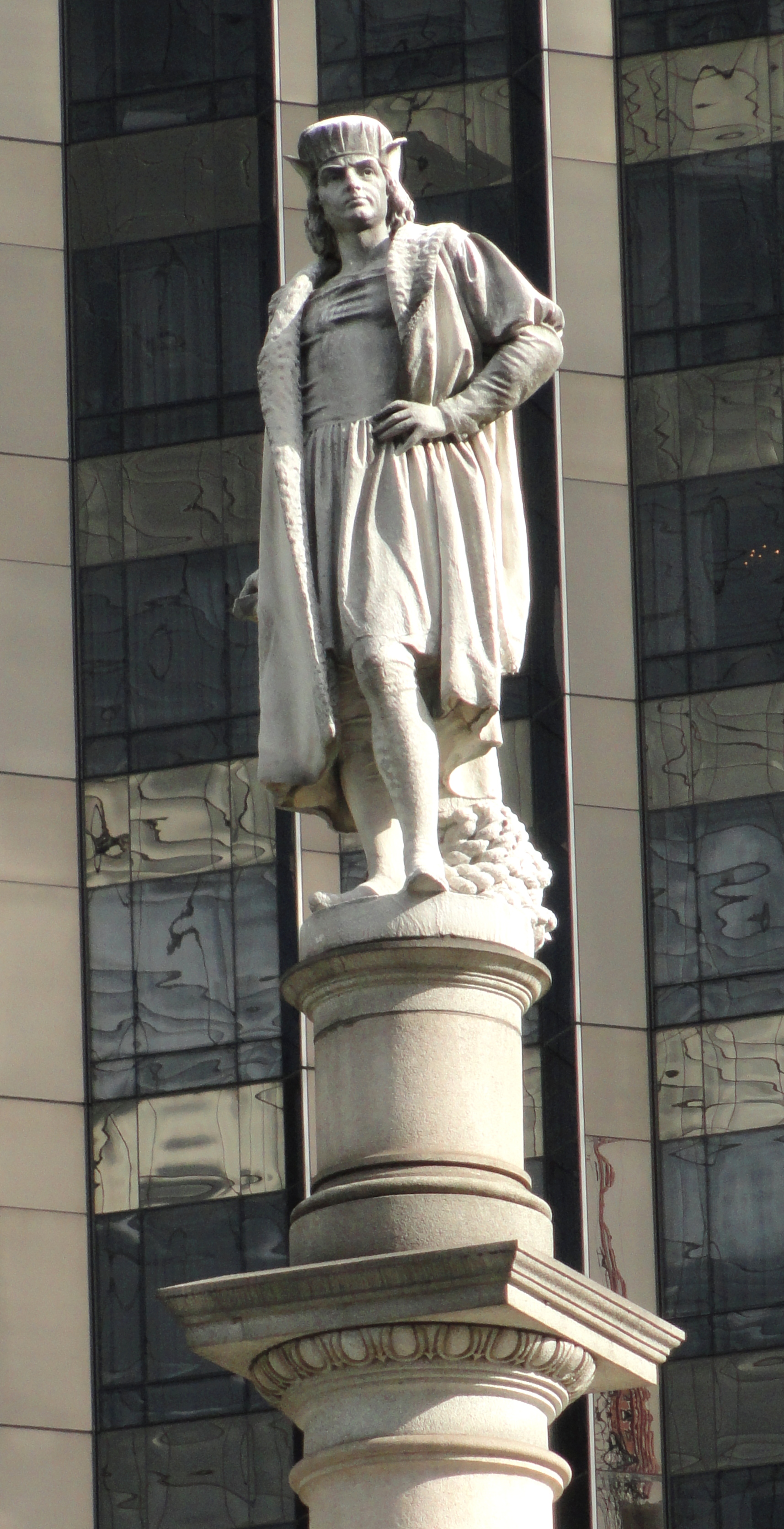 Columbus Monument, Columbus Circle, Manhattan, New York City, New York, USA.